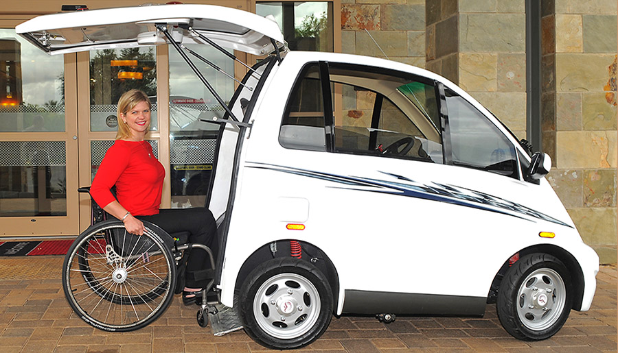 The Chairiot solo is a rear entry, wheelchair accessible vehicle.